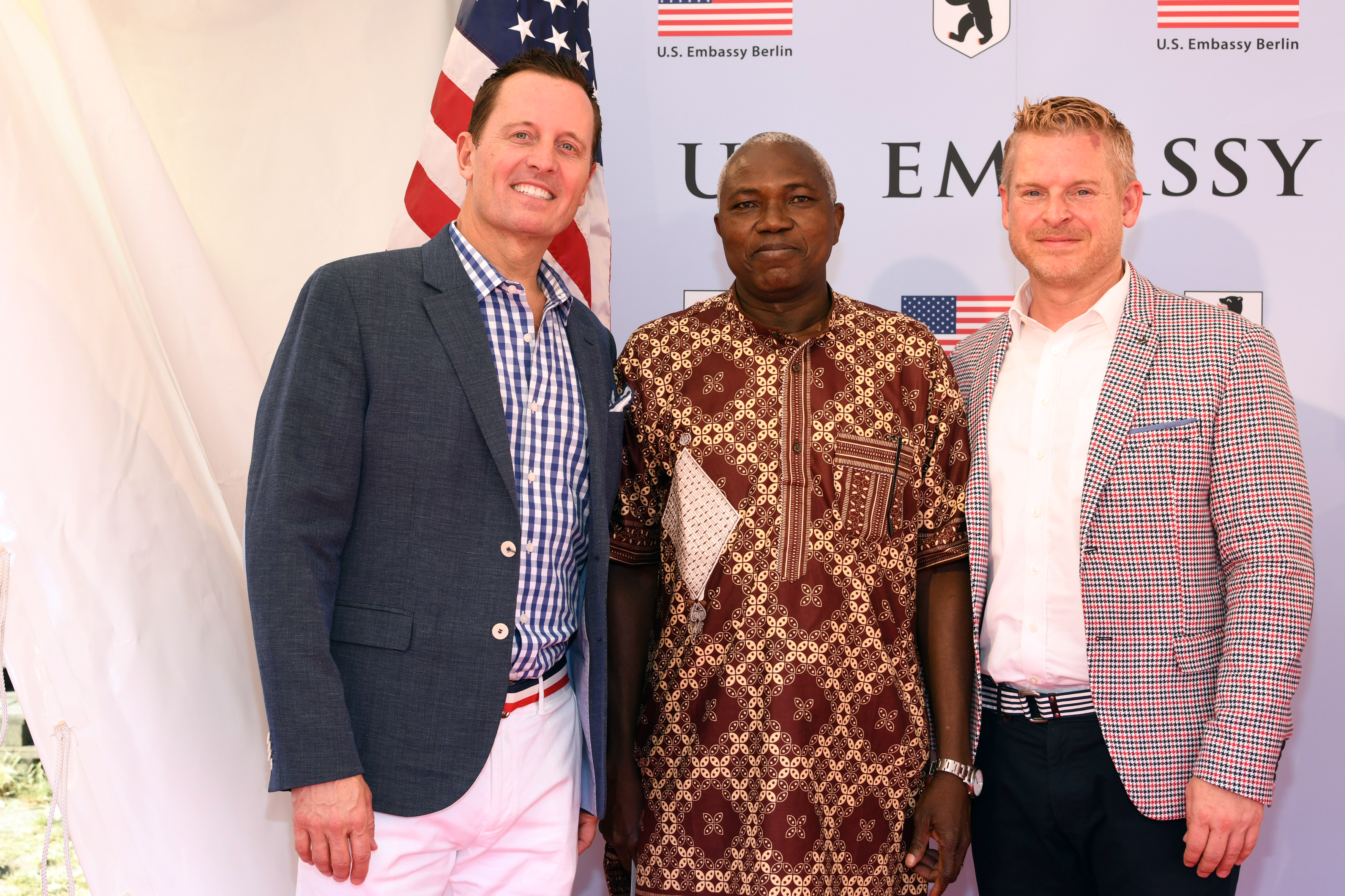 L to R: Richard Grenell, Simplice Honoré Guibila, and Matt Lashey, Sommerfest der US Botschaft Berlin, 4th of July 2018